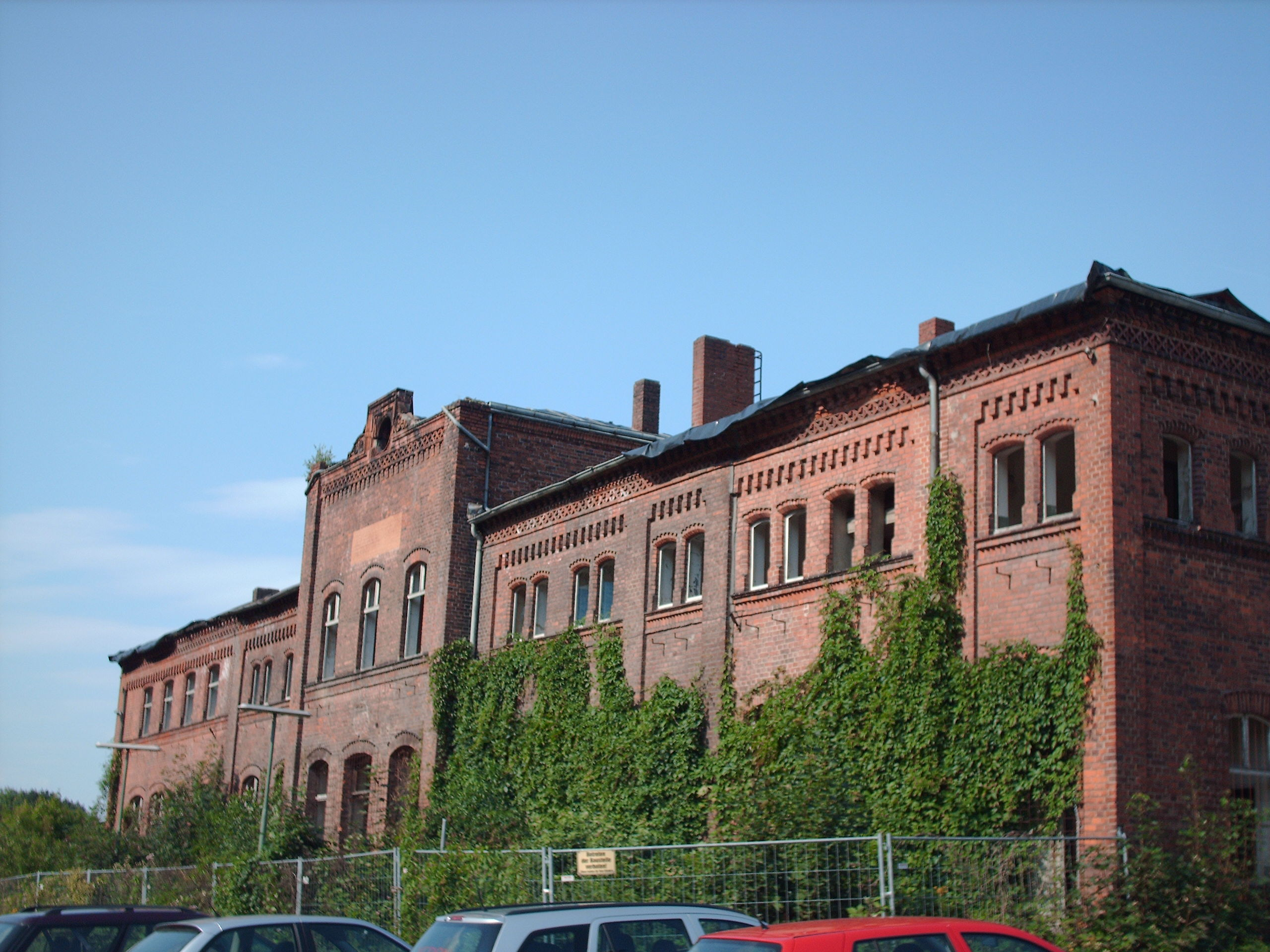 Vlotho station, Vlotho, District of Herford, North Rhine-Westphalia, Germany check usage